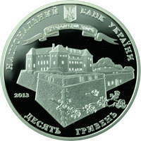 Obverse of the sterling silver 5 Hryvnia coin "1120th Anniversary of the City of Uzhhorod"